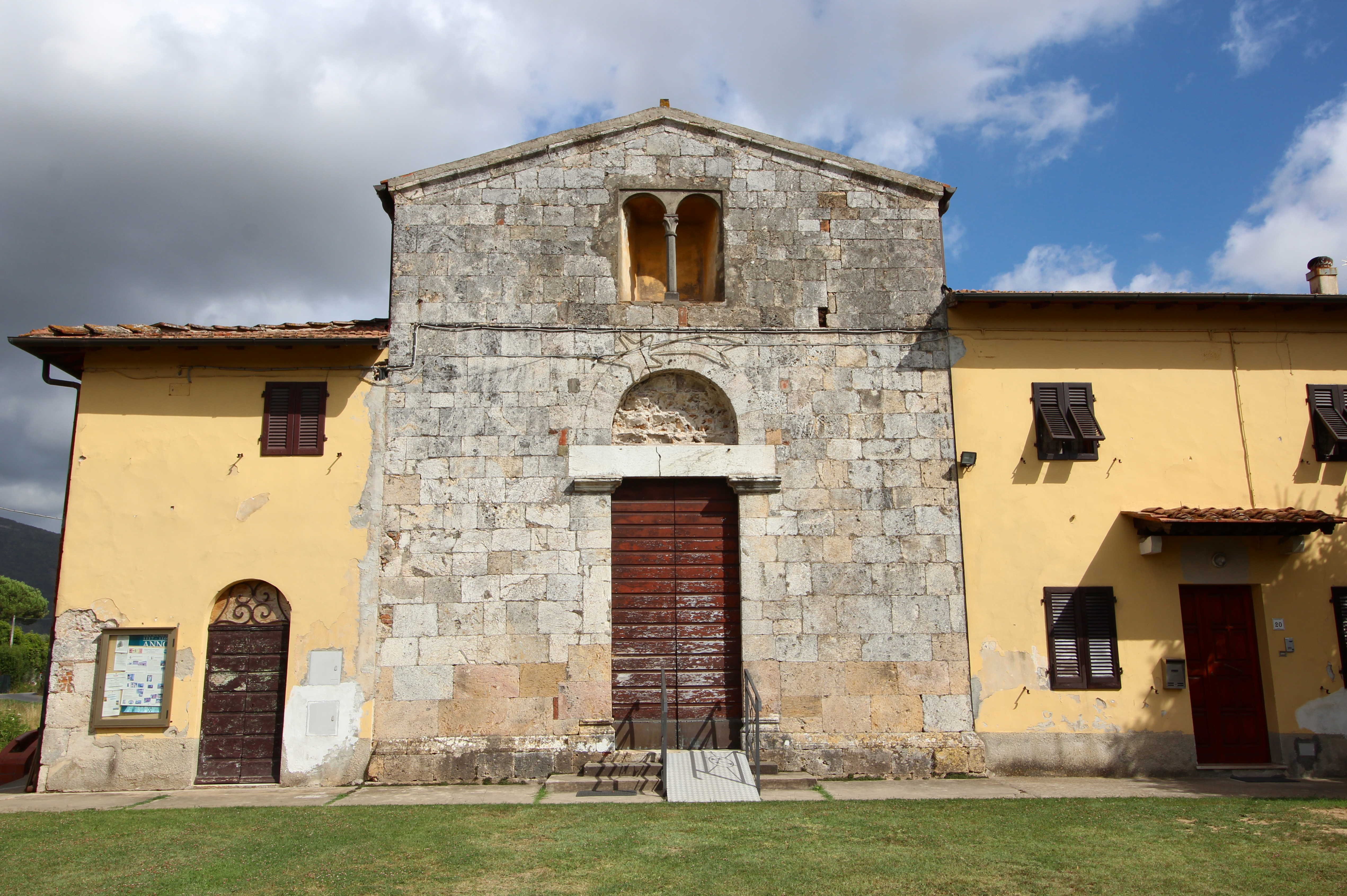 Church San Giovanni Evangelista, Pontasserchio, hamlet of San Giuliano Terme, Province of Pisa, Tuscany, Italy